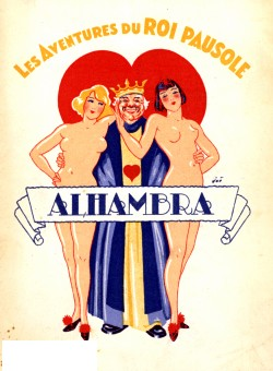 Programme Alhambra Theatre (Brussels)